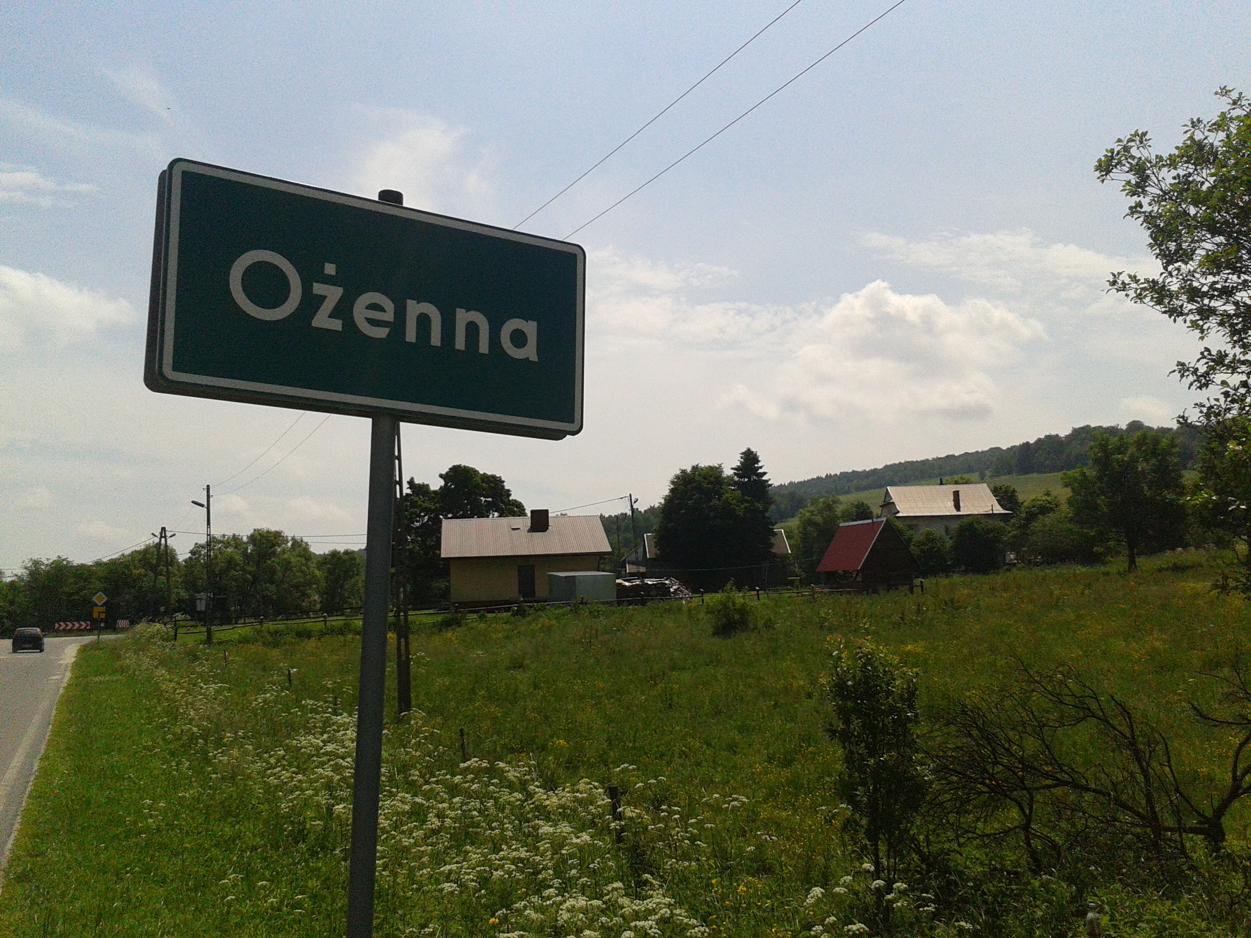 Ożenna, Poland. June 2013